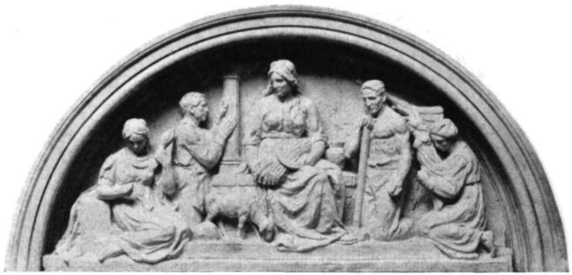 Sculptural work by Ralph Stackpole, appearing at the Panama-Pacific International Exposition in San Francisco in 1915, over the main south entrance to the Palace of Industry. Figures in the tympanum represent, from left, Textiles, Architecture, Agriculture, Labor and Commerce. Photograph was published in 1915 in the book The Jewel City by Ben Macomber.